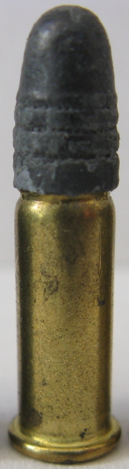 .22 Long Rifle